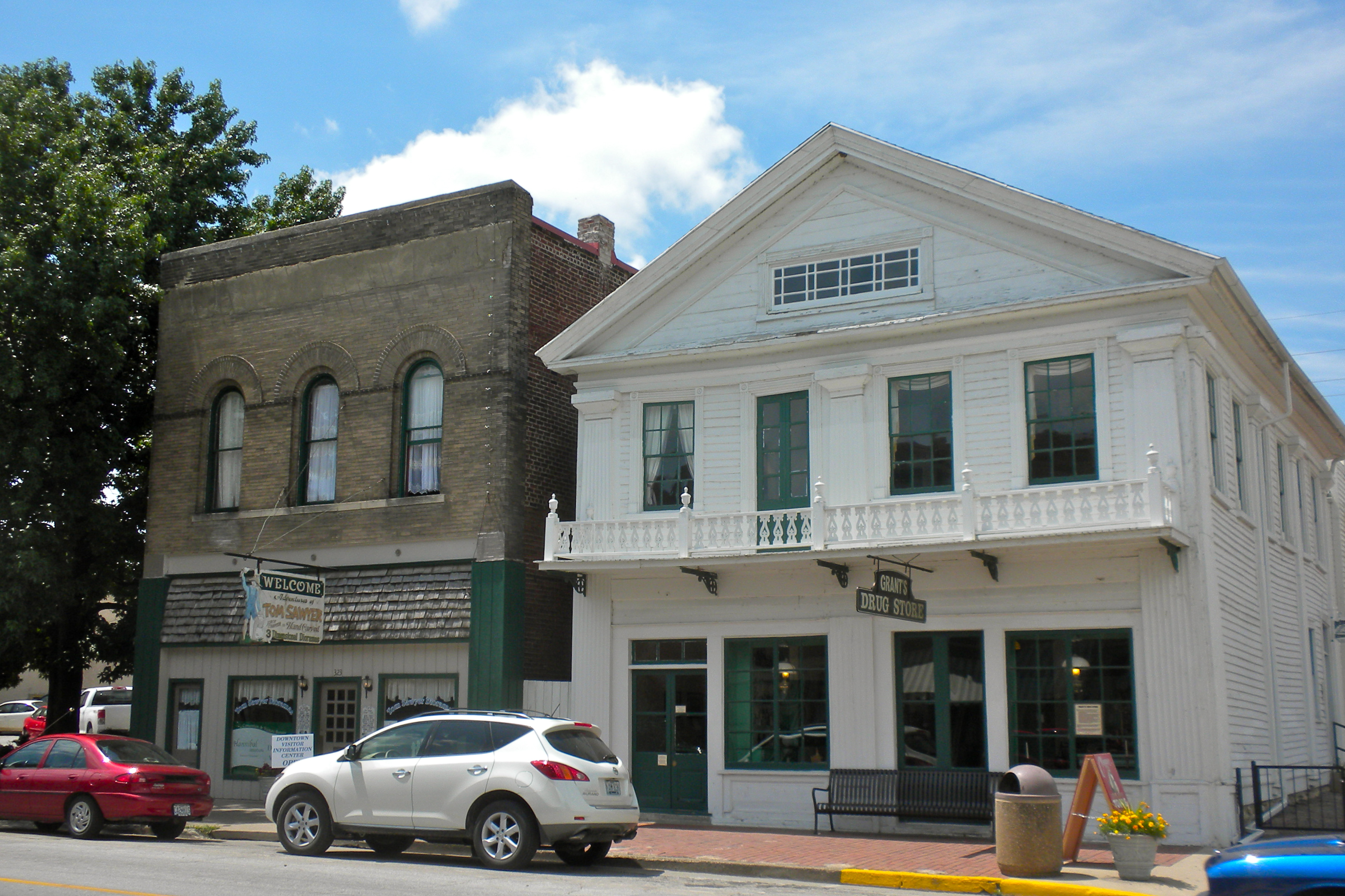 Grant's Drug Store in the North Main Street Historic District of Hannibal, Missouri. The District has been on the NRHP since August 1, 1986. The Historical District is roughly bounded by Bird, N. Main, and Hill Sts., which apparently overlaps with the Mark Twain Historic District. Grant's is on the SE corner of Main and Hill with Samuel Clemen's (Mark Twain's) boyhood home a bit uphill of the NE corner. Clemens lived in this building (Grant's) briefly as a boy.